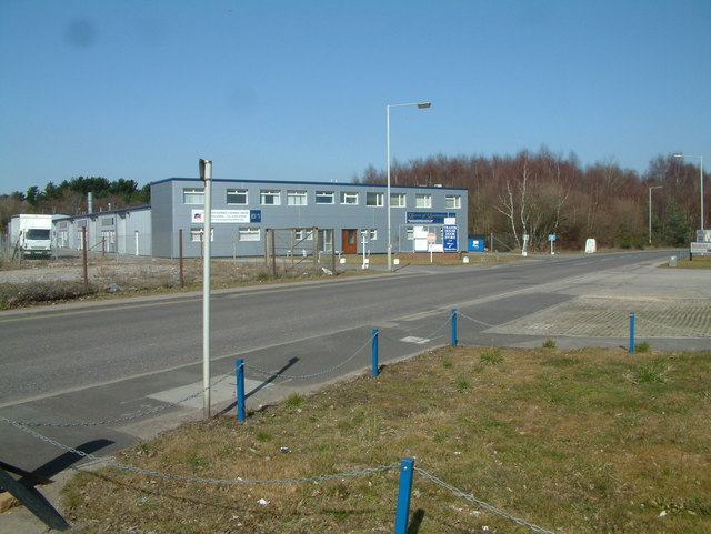 Ferndown Industrial Estate, Dorset. This is a large industrial estate which has easy access to the A31.